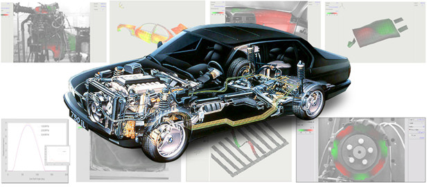 Examples of automotive measurements